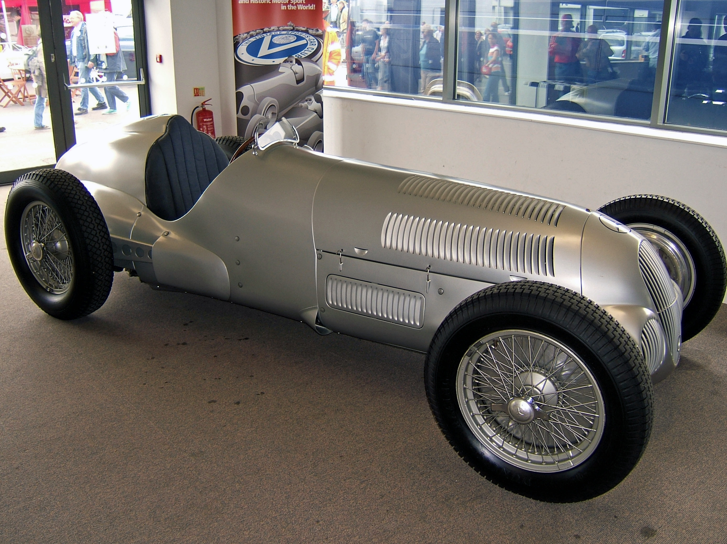 A Mercedes-Benz W 125 Grand Prix car, on display during the VSCC SeeRed race meeting, Donington Park, September 2007.